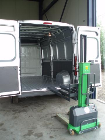 transpallet to go